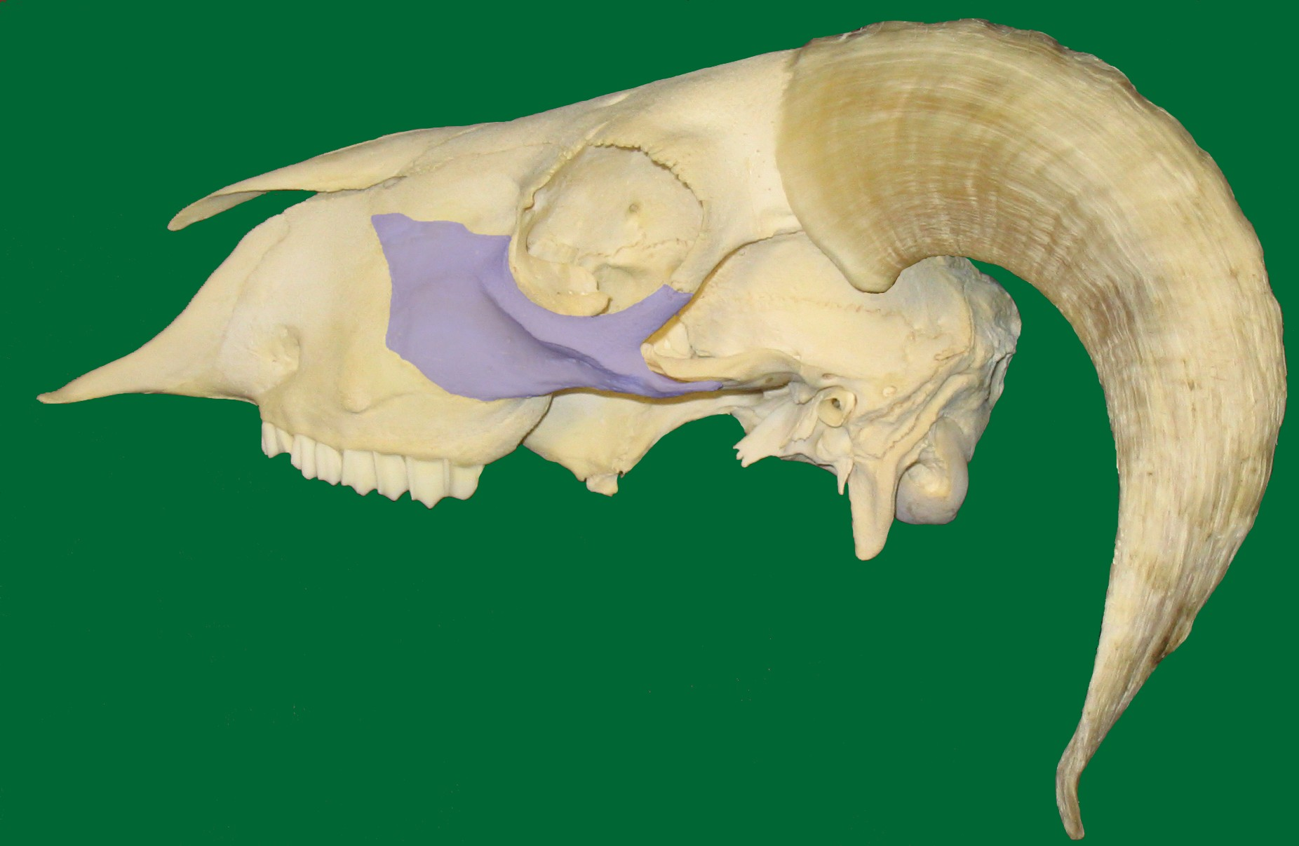 Skull of a sheep. Zygomatic bone (Os zygomaticum) coloured Schädel eines Schafes. Jochbein (Os zygomaticum) farbig markiert